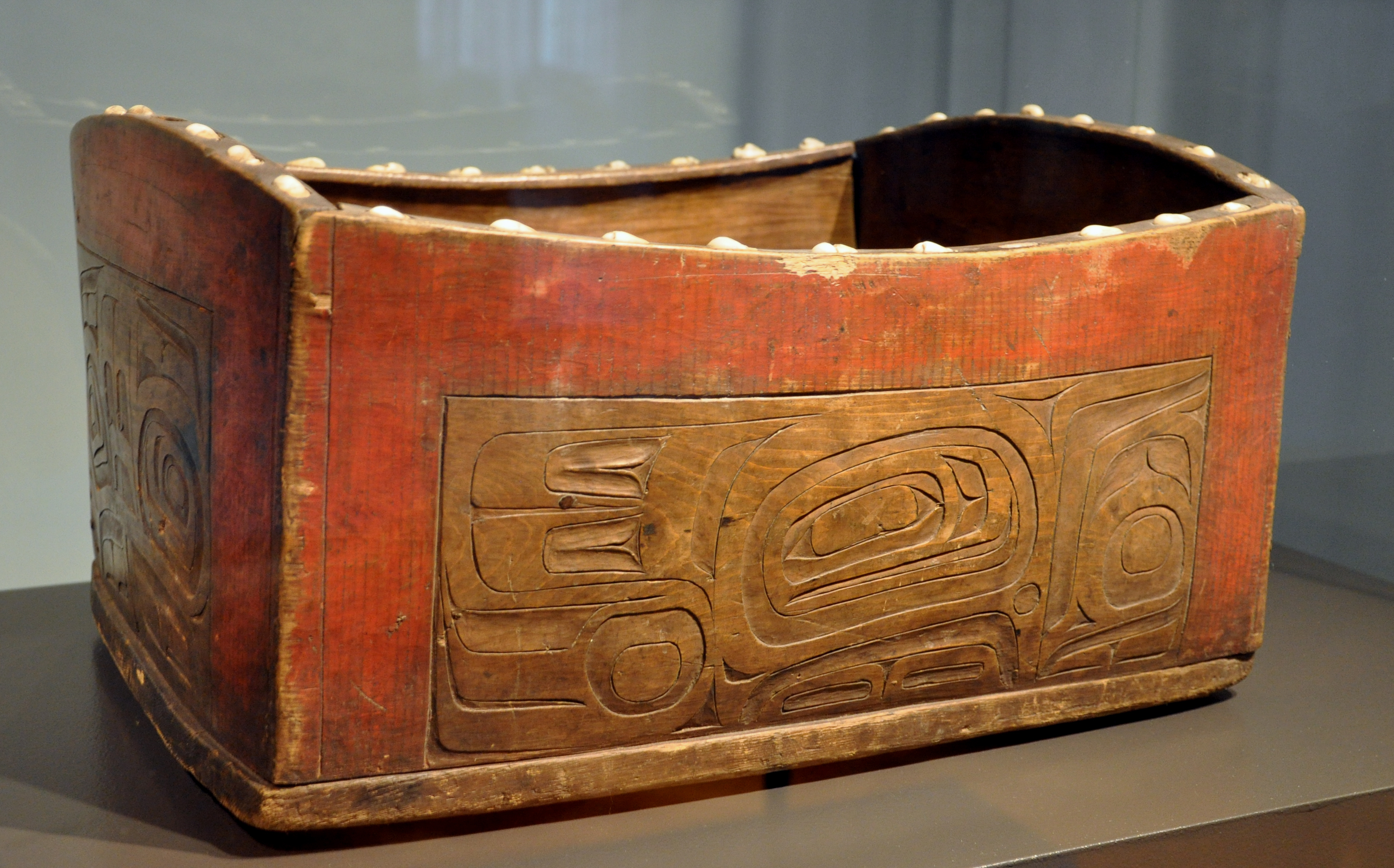 Wooden chest, Alaska, Tlingit culture, 19th century; Museum Rietberg, Zurich; Inv. No. RNA 207